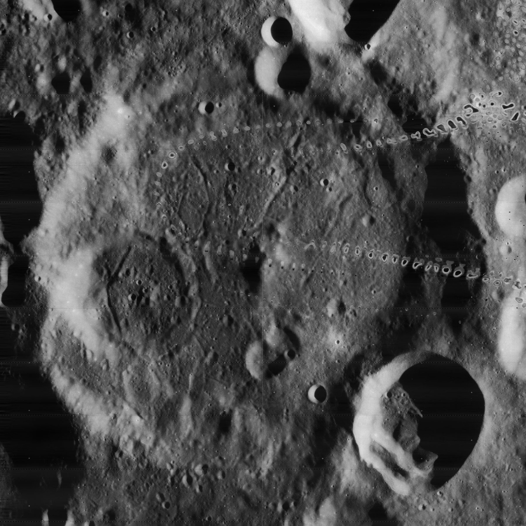 Vasco da Gama (crater), on the moon. Curved rows of spots at right are blemishes on original.